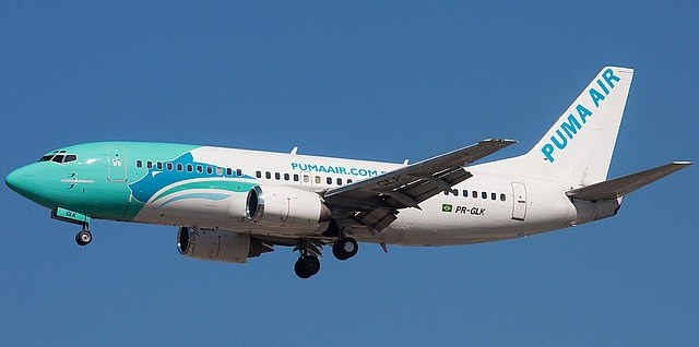 saddsa